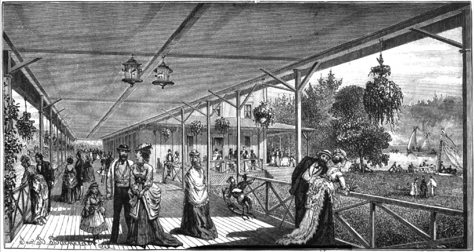 1875 woodcut of the verandah and wooden addition at the North Mountain House hotel at Ganoga Lake, Colley Township, Sullivan County, Pennsylvania, USA. The 1852 Clemuel Ricketts Mansion was part of the North Mountain House and survives to this day.